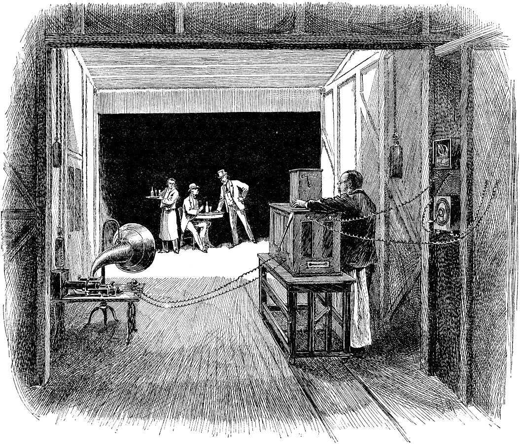 Interior of the kinetographic theater.